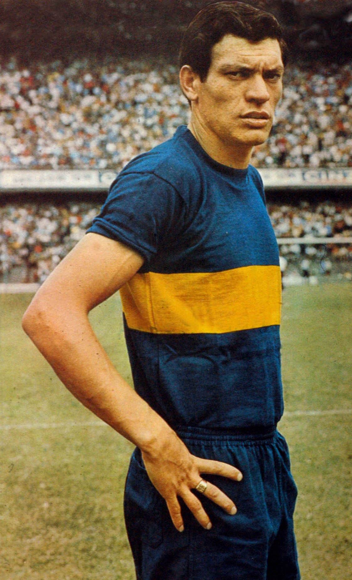 Hugo Curioni at Boca Juniors (1971-1973)